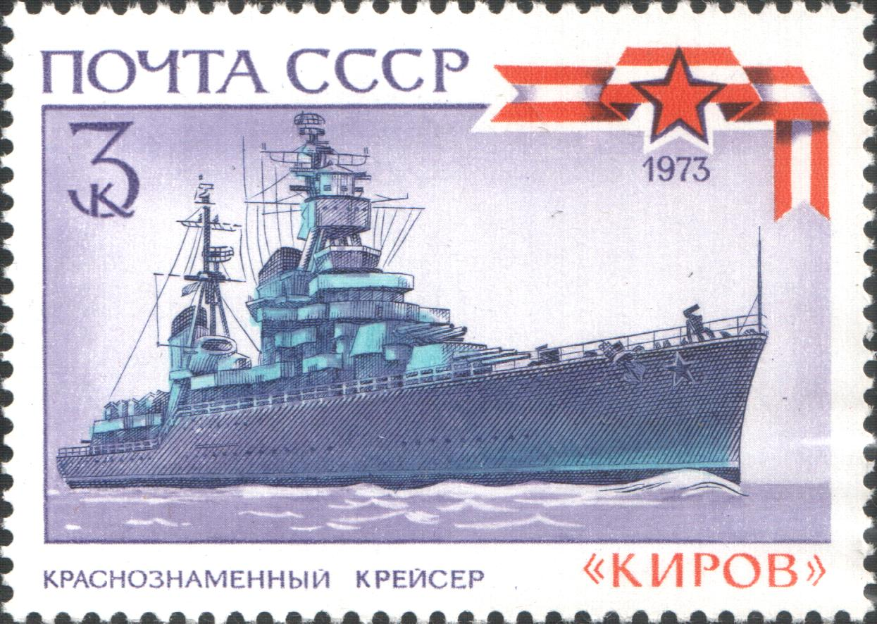 USSR stamp